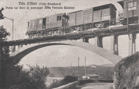 Villa d'Almè rail bridge